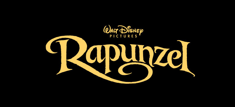 Official logo for the upcoming 3D animated feature film "Rapunzel" by Walt Disney Animation. (C) Disney